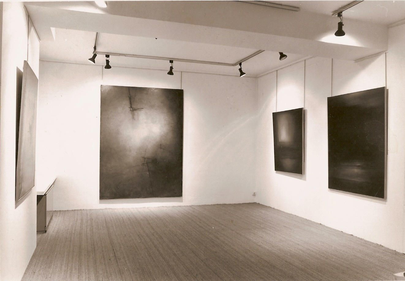 Art exhibition of Andre Queffurus in the galery Jean Leroy in 1978.